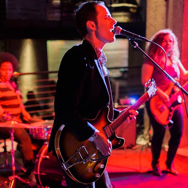 The Rock Shop in Brooklyn on 11/03/2014